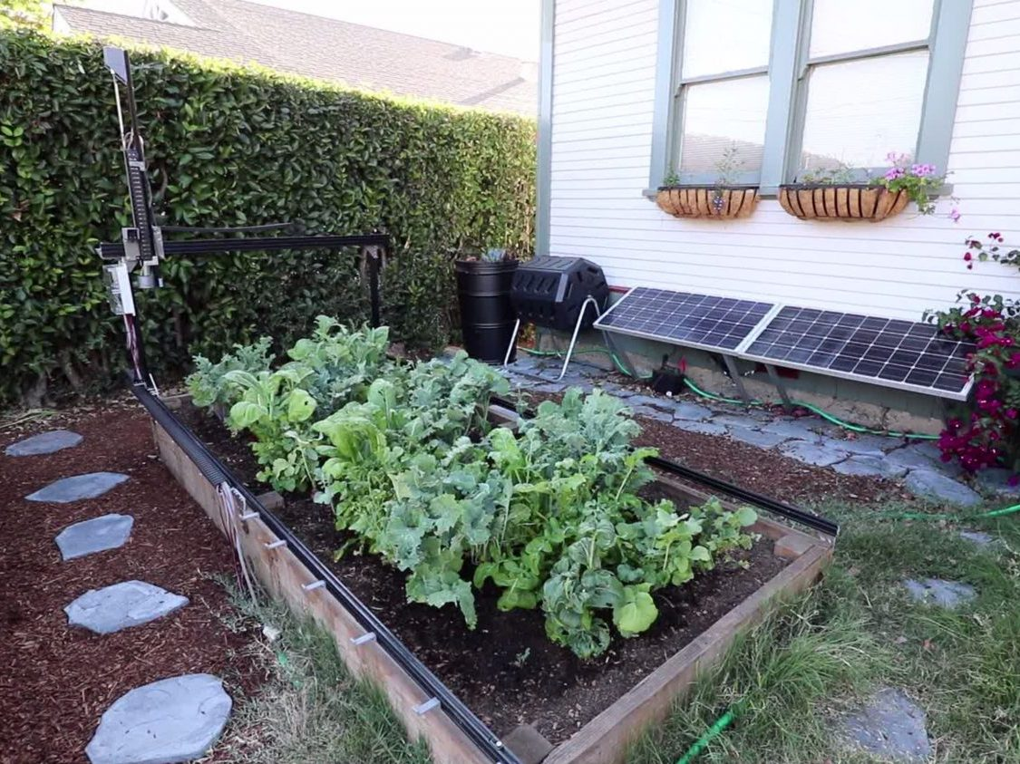 FarmBot Genesis